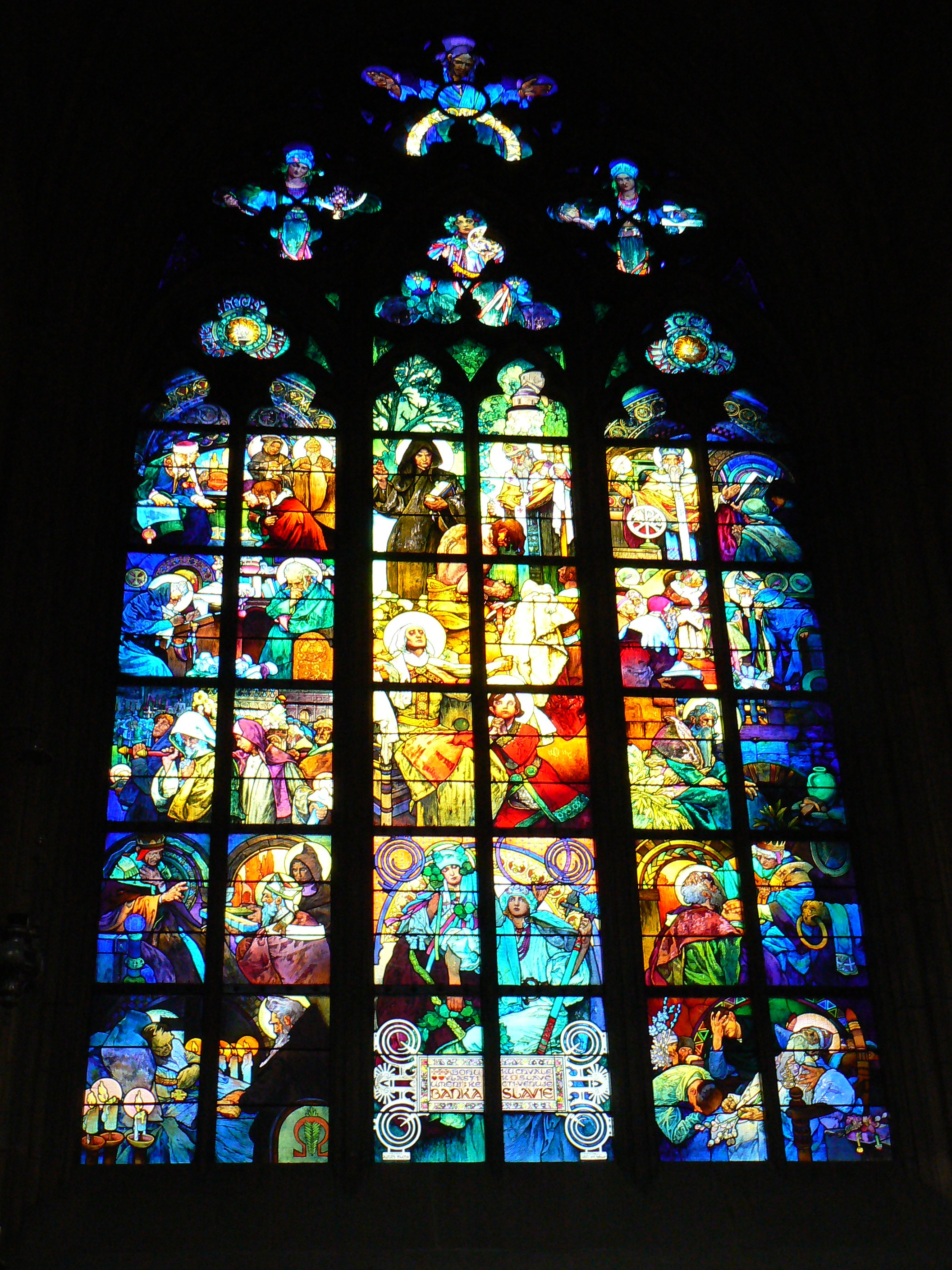 Alfons Mucha's stained glass window in St. Vitus Cathedral, Prague, Czech Republic Česky: Vitraj Alfonse Muchy ve Svatovítské katedrále v Praze